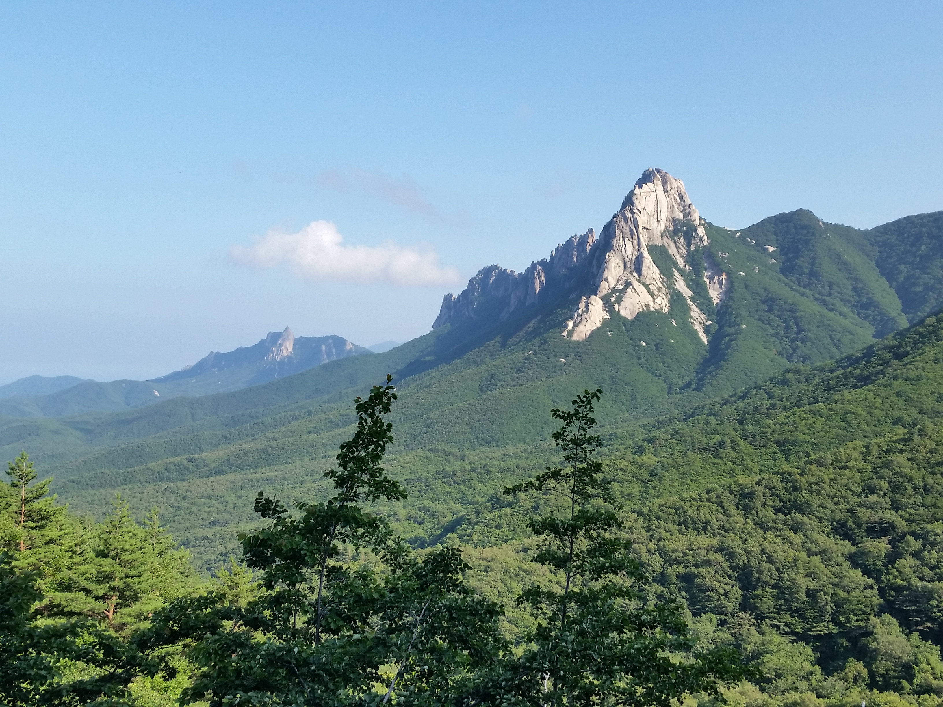 Ulsanbawi Rock as seen from the Misiryeong Ridge